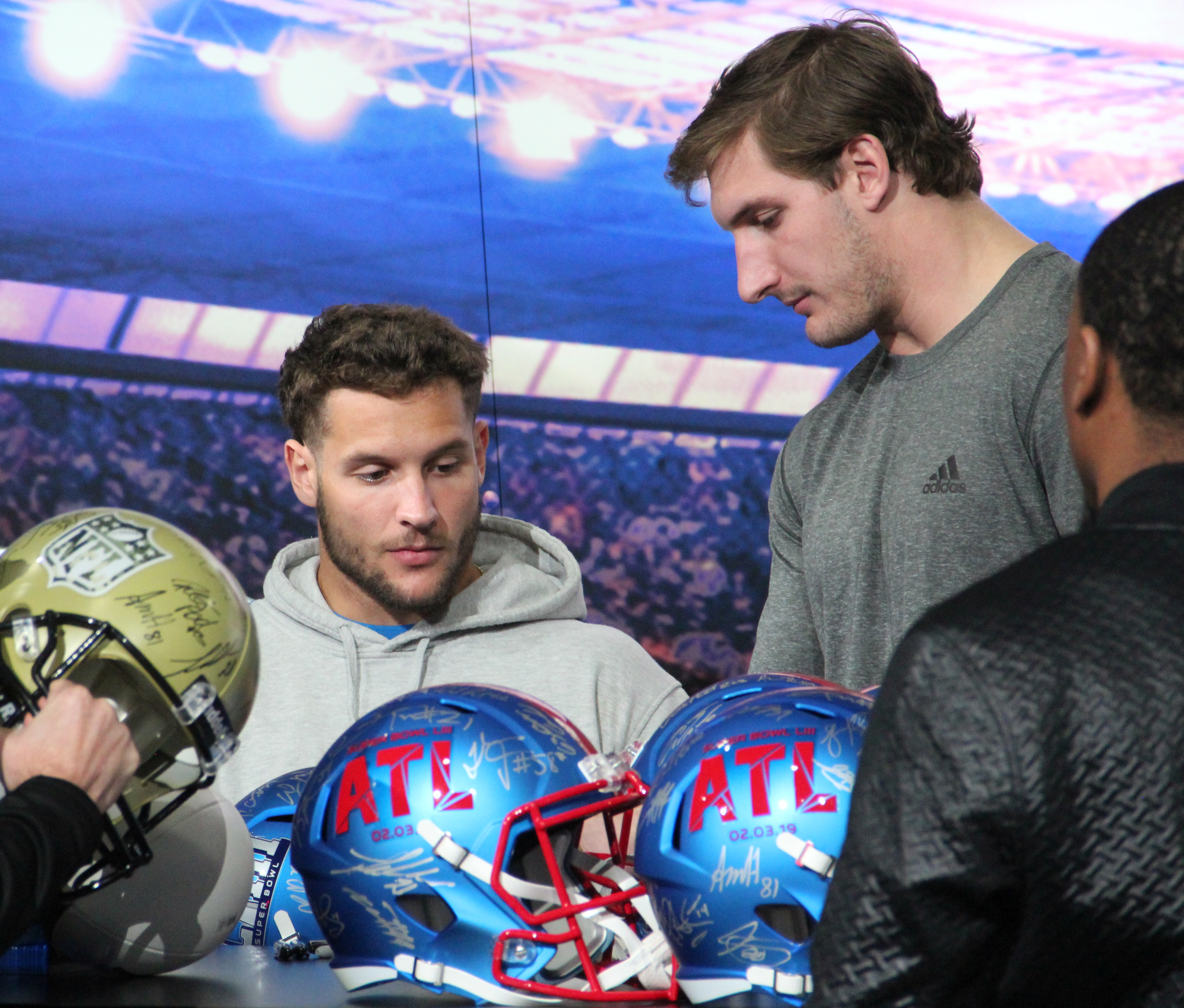 Nick (left) and Joey (right) Bosa at the Super Bowl Experience at Super Bowl LIII